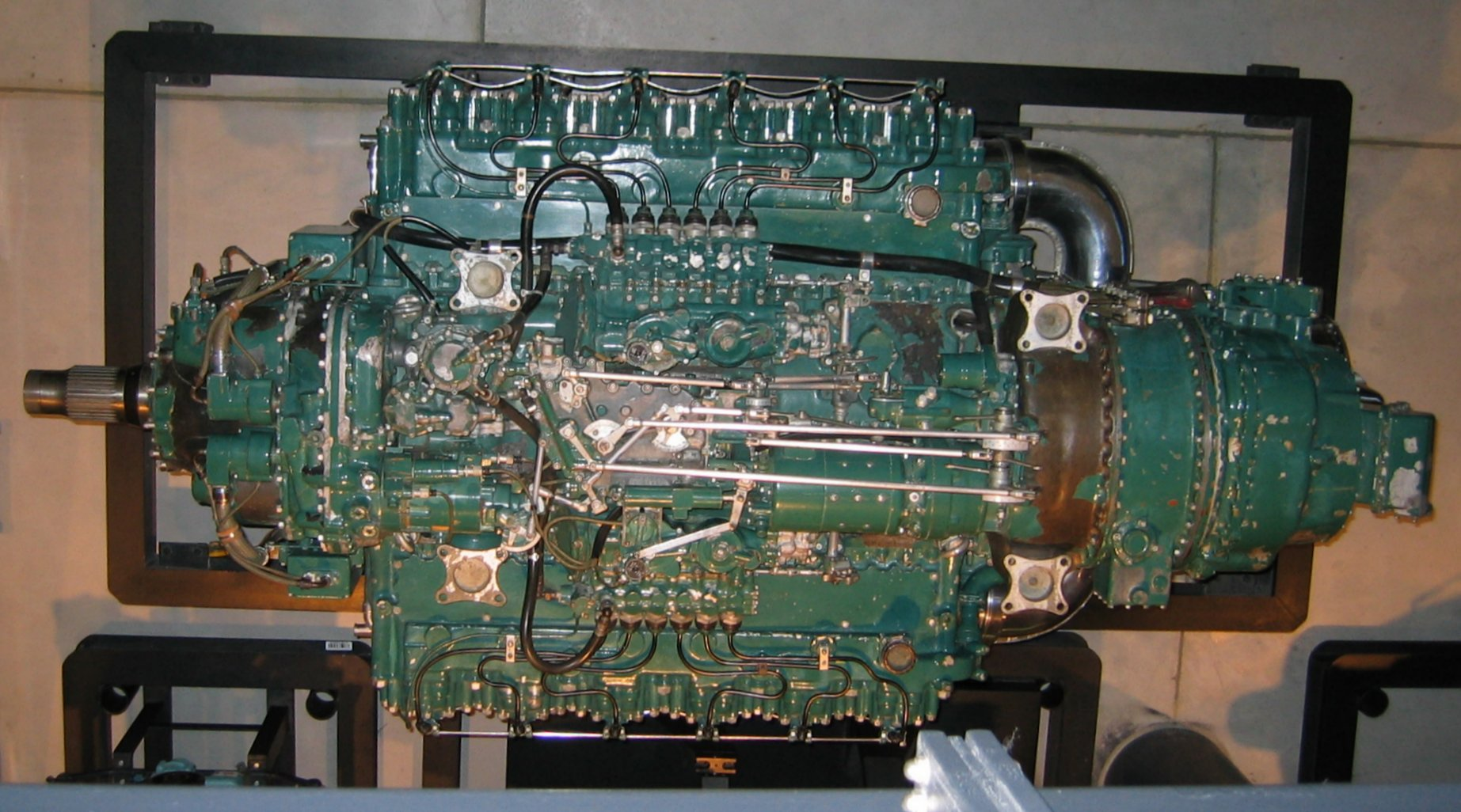 A plan view of the Napier Nomad compound engine.